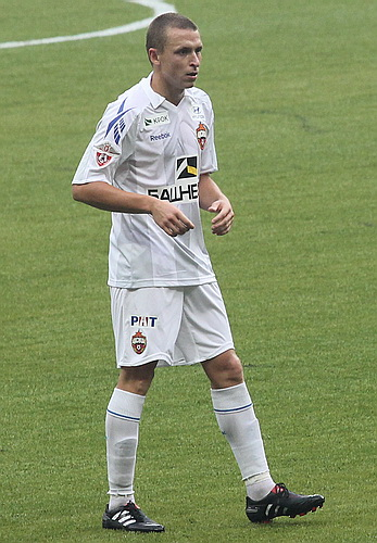 Pavel Mamaev